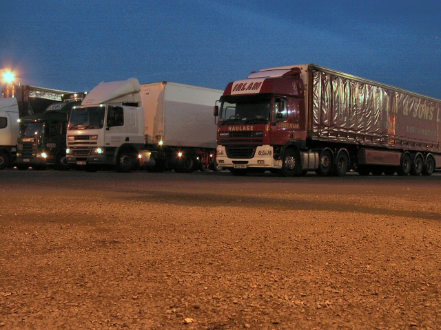 The Big Sleep. Truckers on the M6 Southbound bed down for the night on Corley Services.